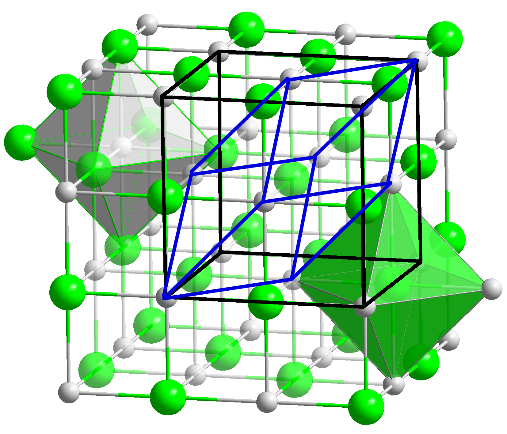 Crystal structure of NaCl with coordination polyhedra, rhobohedron and face centered unit cell